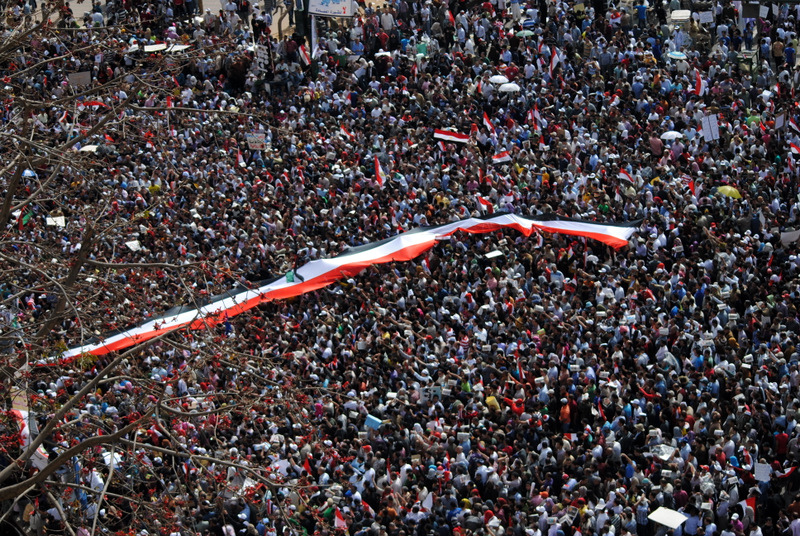 Over 1 million protestors in Tahrir Square.